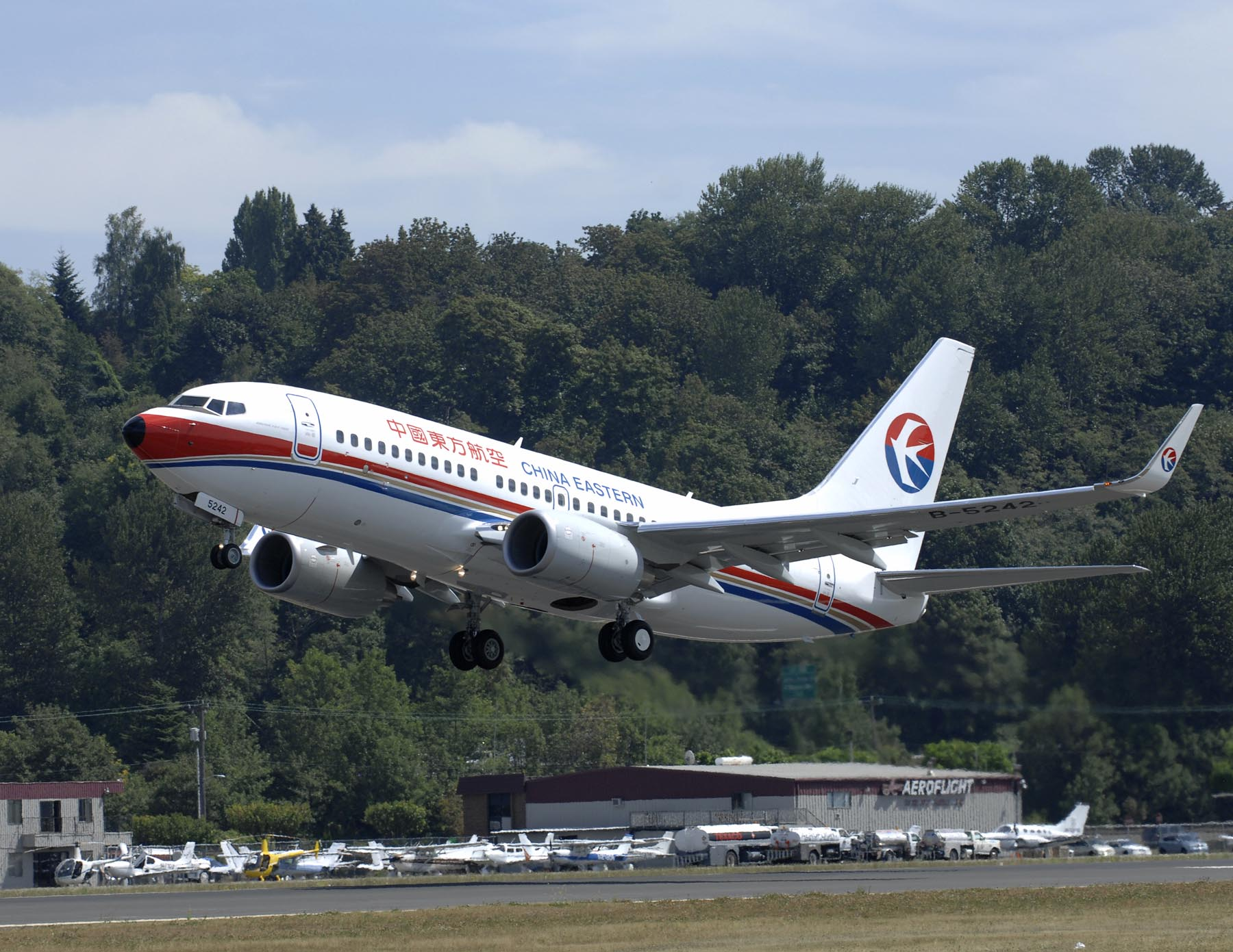 China Eastern Airlines YN022 2357 (CEA) 737-700 Exteriors and Take off